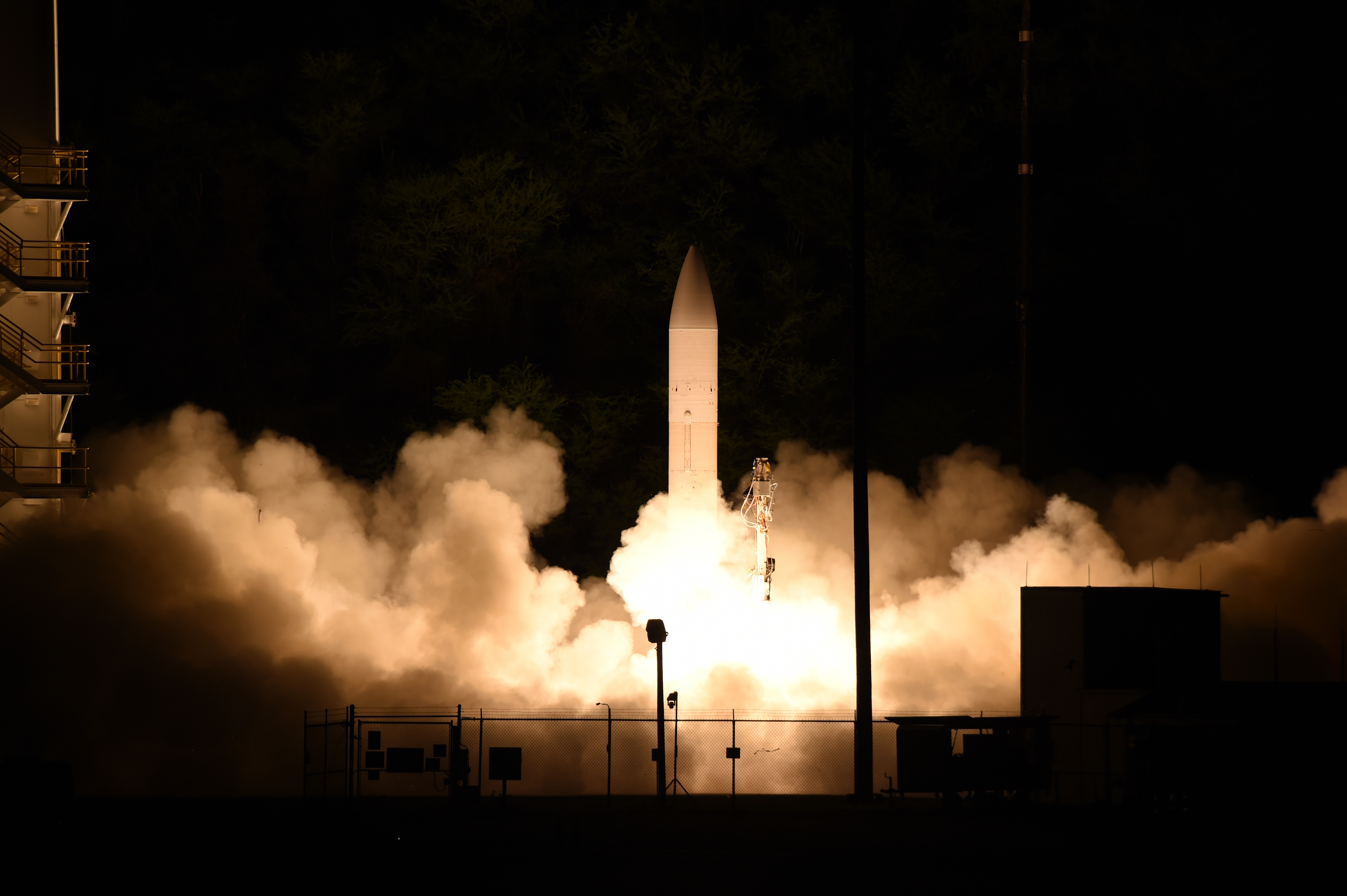 200319-N-NO101-0001 KAUAI, Hawaii (March 19, 2020) A common hypersonic glide body (C-HGB) launches from Pacific Missile Range Facility, Kauai, Hawaii, at approximately 10:30 p.m. local time, March 19, 2020, during a Department of Defense flight experiment. The U.S. Navy and U.S. Army jointly executed the launch of the C-HGB, which flew at hypersonic speed to a designated impact point. Concurrently, the Missile Defense Agency (MDA) monitored and gathered tracking data from the flight experiment that will inform its ongoing development of systems designed to defend against adversary hypersonic weapons. Information gathered from this and future experiments will further inform DOD's hypersonic technology development. The department is working in collaboration with industry and academia to field hypersonic warfighting capabilities in the early- to mid-2020s. (U.S. Navy photo/Released)